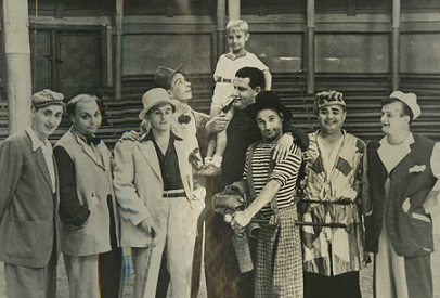 Aronov with Circus Collective